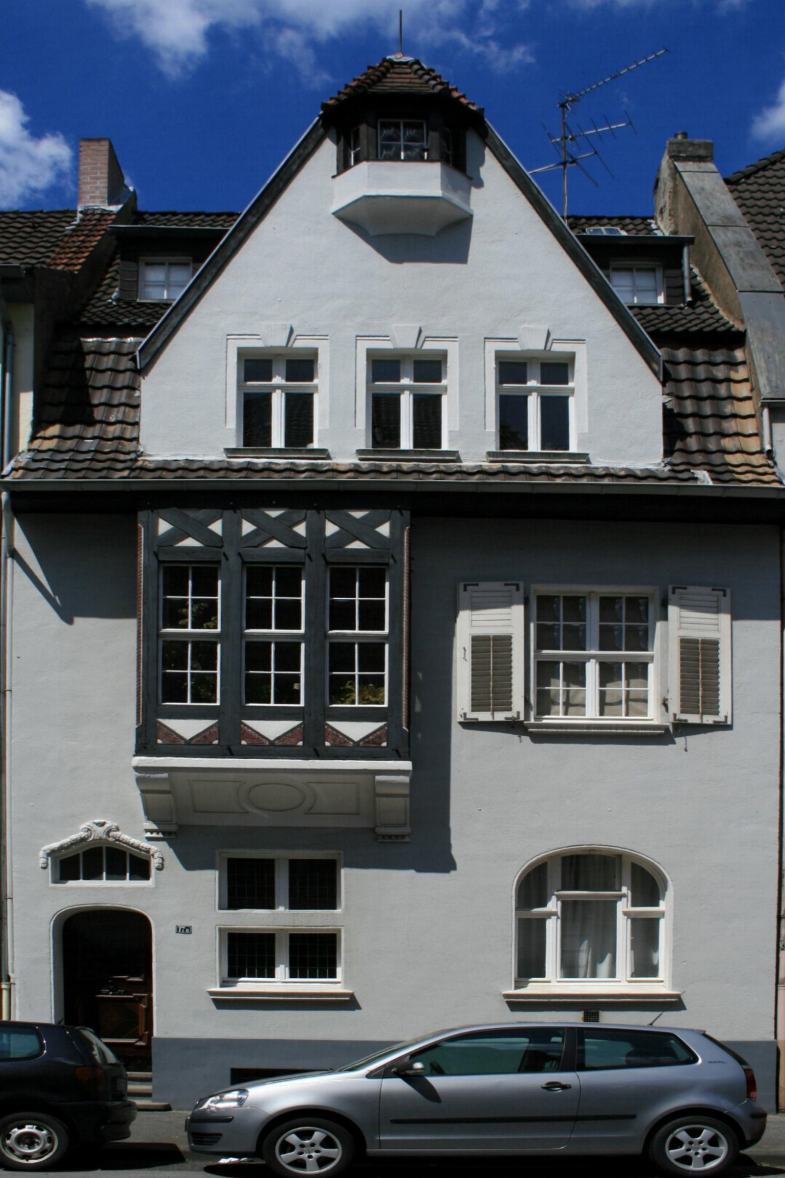 Cultural heritage monument No. G 044 in Mönchengladbach